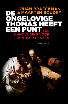 Cover of De ongelovige Thomas heeft een punt. Een handleiding voor kritisch denken. (2011), a book by Maarten Boudry and Johan Braeckman.